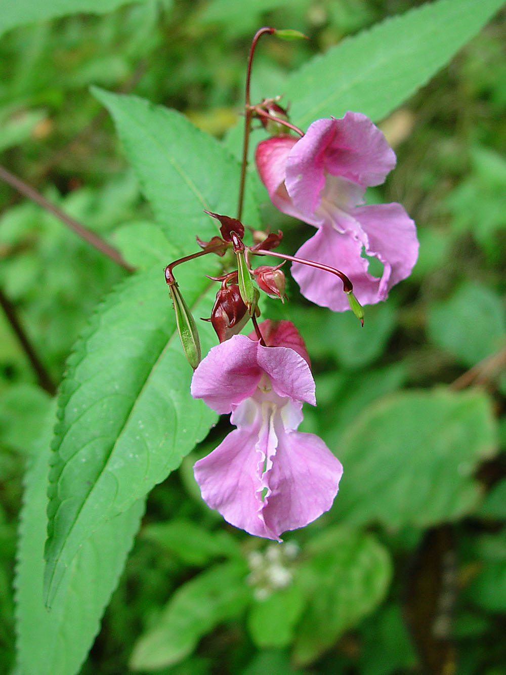 Impatiens glandulifera Aufnahmedatum: 28. September 2002 Fotograf: ArtMechanic